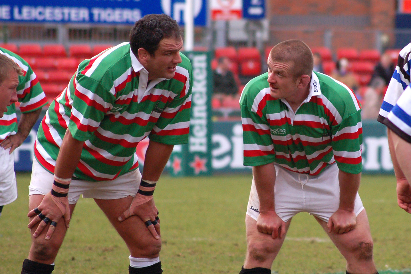 Martin Johnson and Graham Rowntree during the friendly match between Bath and Leicester teams of 1996 that took place in 2007.